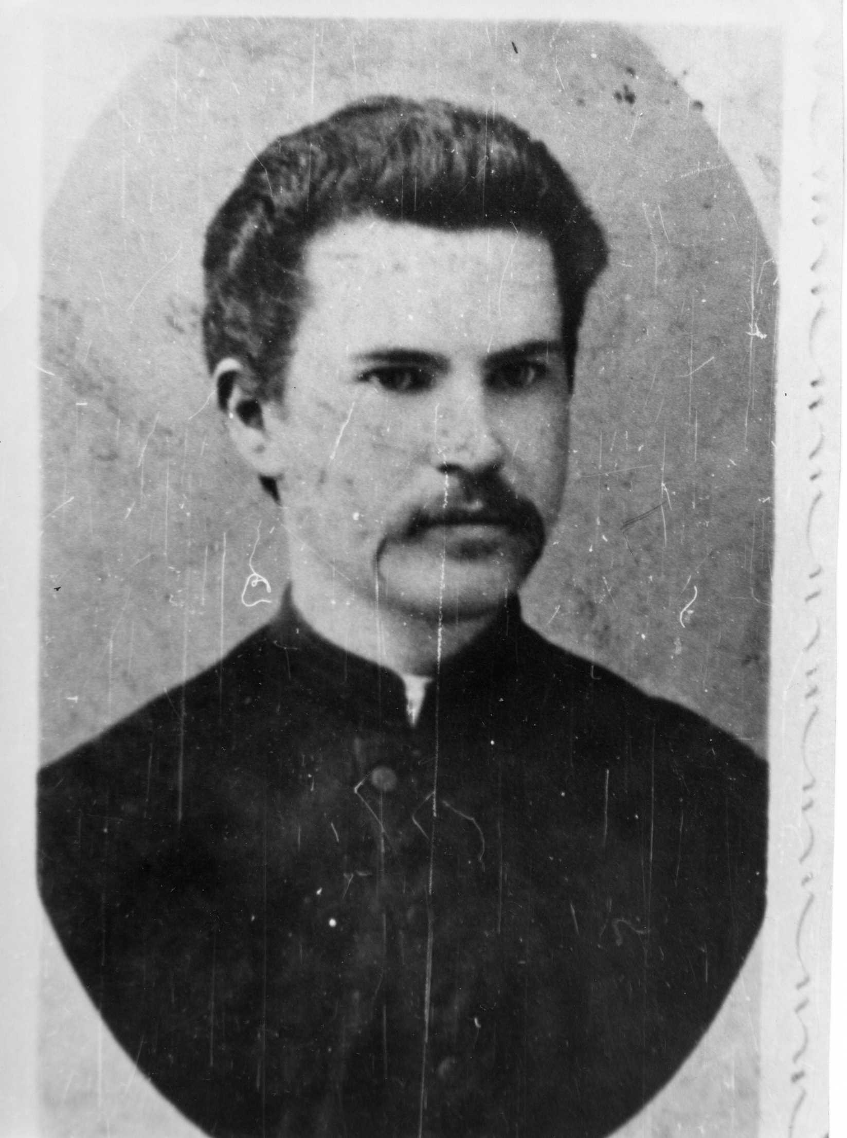 Russian gardener Bedro, Ivan Prokhorovich